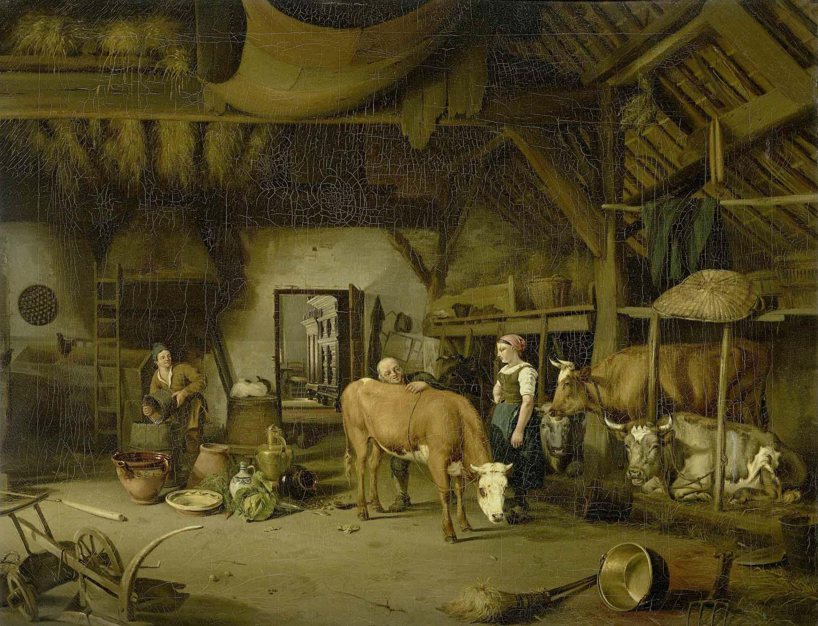 Peasant interior